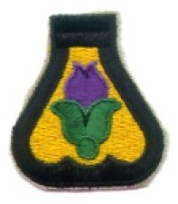 21st ssi